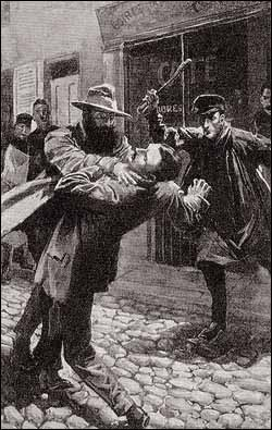 Arthur Conan Doyle, The Disappearance of Lady Frances Carfax (1911), Illustration by Alec Ball, in The Strand Magazine